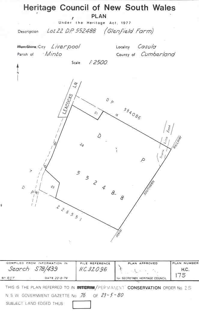 Glenfield Farm: PCO Plan Number 025